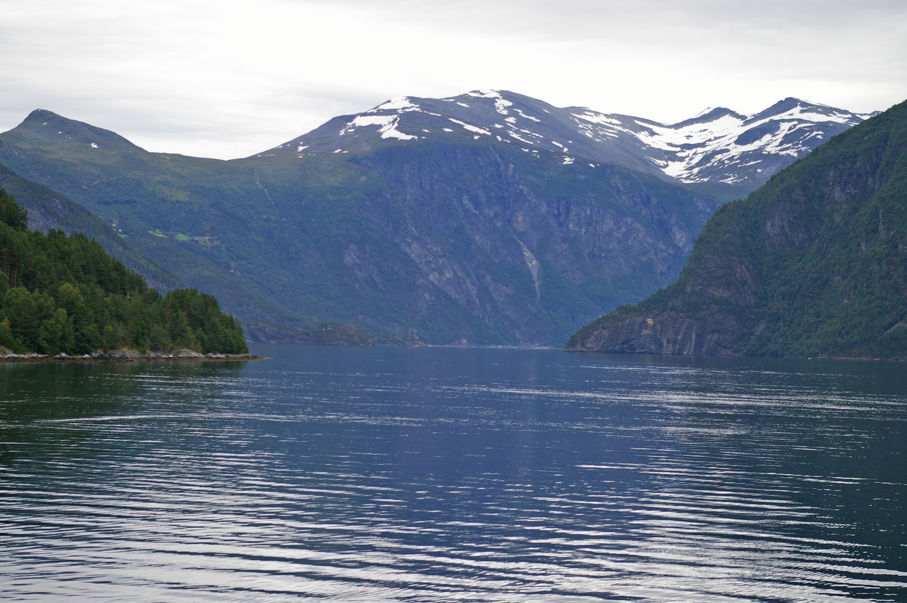 The inlet to Tafjorden seen from Norddalsfjorden in Møre og Romsdal, Norway